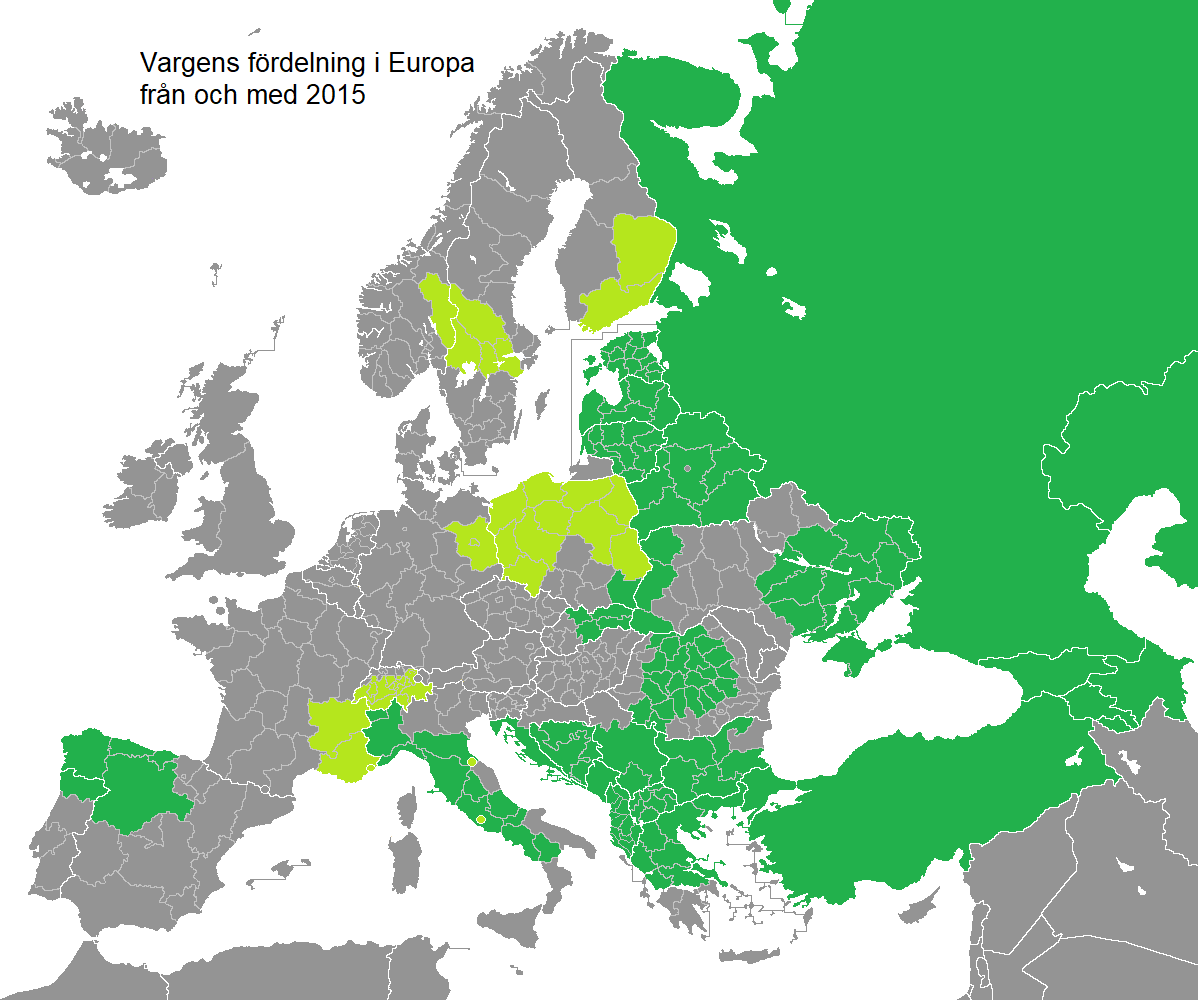 Range of Canis lupus in Europe, based on Canis lupus European regional assessment, IUCN, Large Carnivore Initiative for Europe and One, no one, or one hundred thousand: how many wolves are there currently in Italy?. Lime colour stands for population lower than 800, while green is above 800. Notice that the population colours are based on multinational populations, not subnational ones.